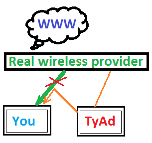 A sketch for Typhoid Adware. You may delete this image when better ones will be uploaded.